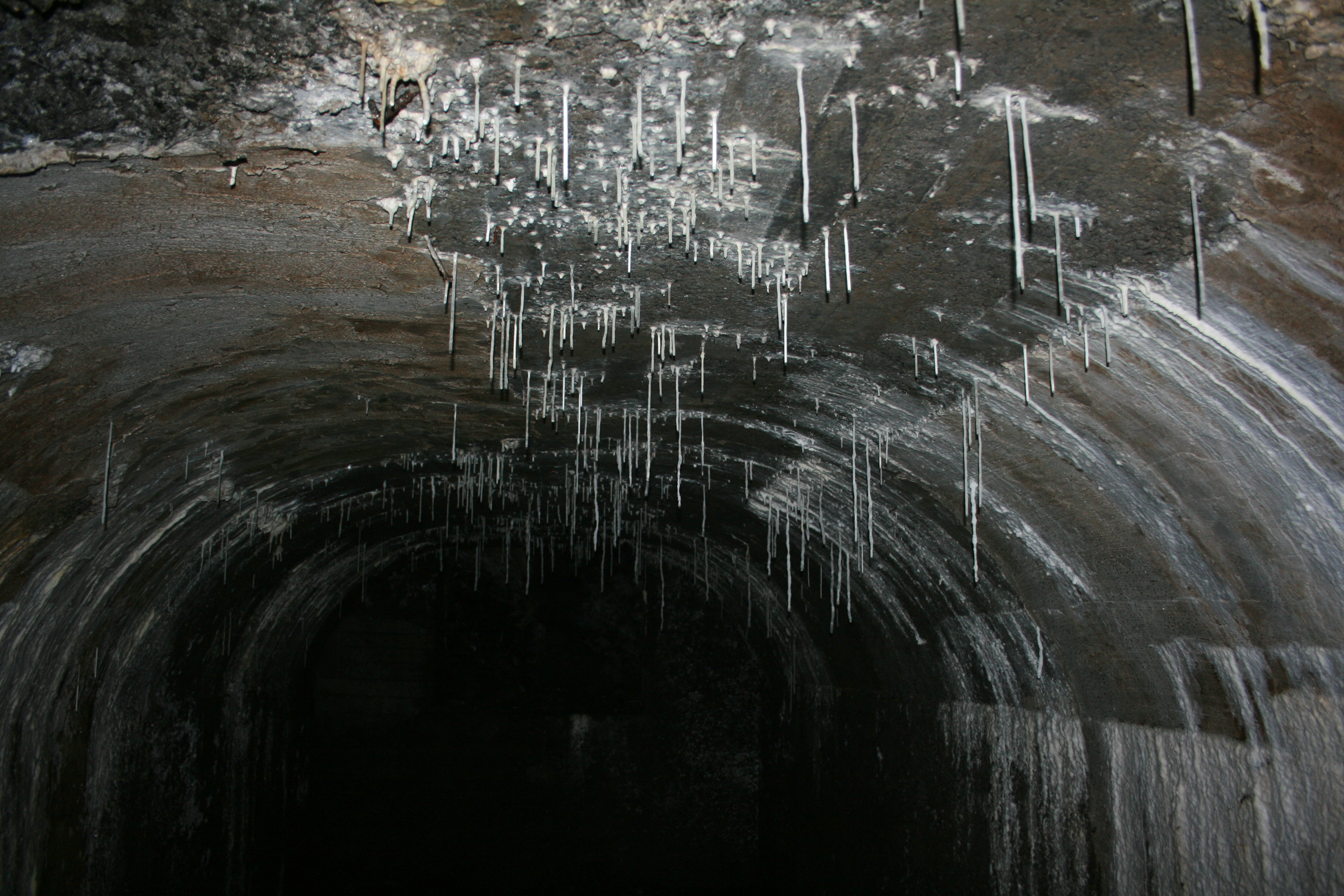 Tropfsteine im Iserlohner Altstadtstollen